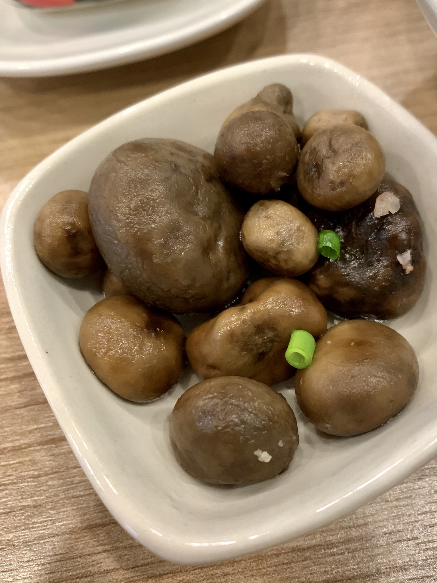 Cooked fugus from Northern Thailand